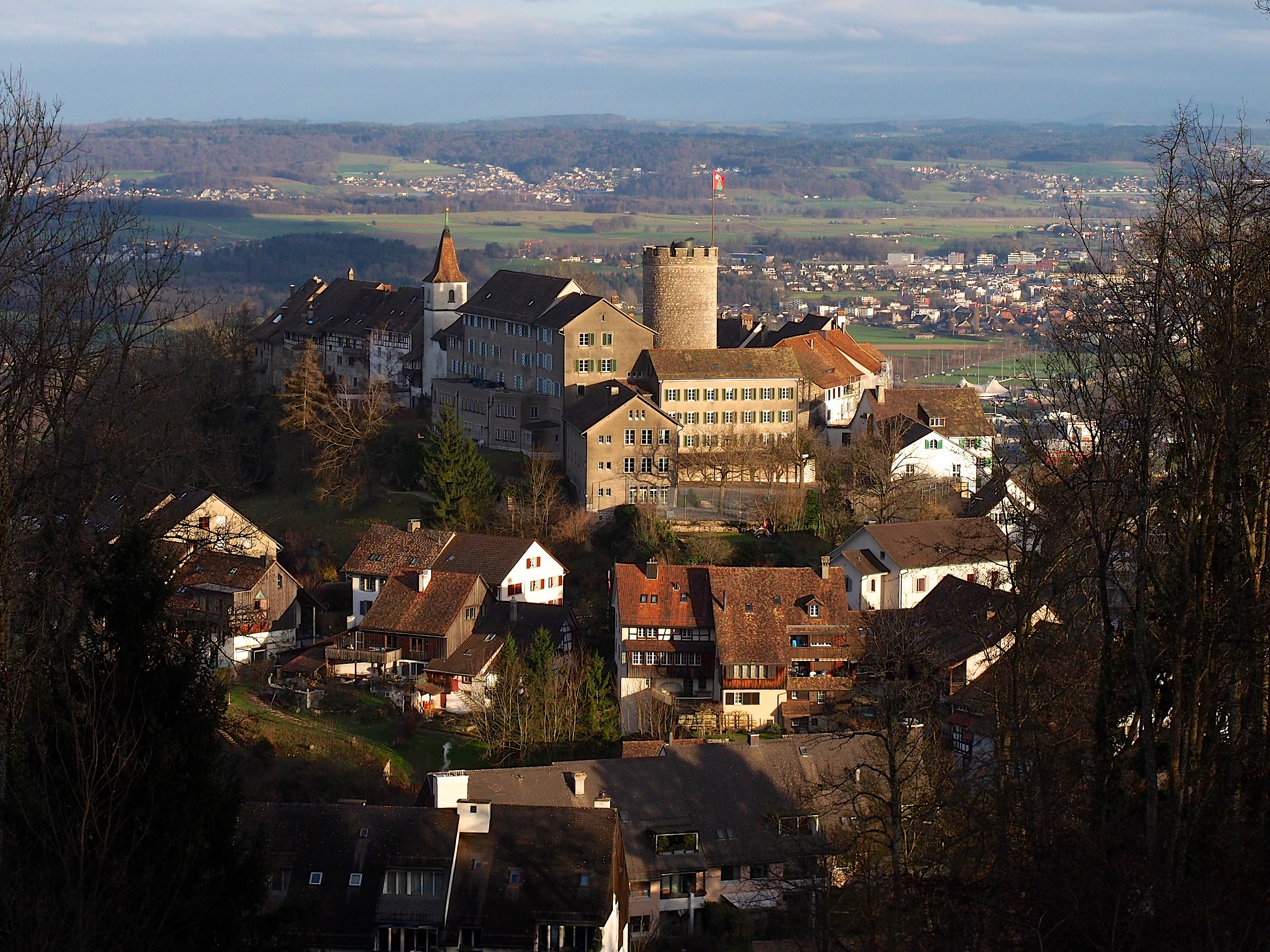 Regensberg ZH as seen from the Lägern (hill) in the evening. Canton of Zurich, Switzerland